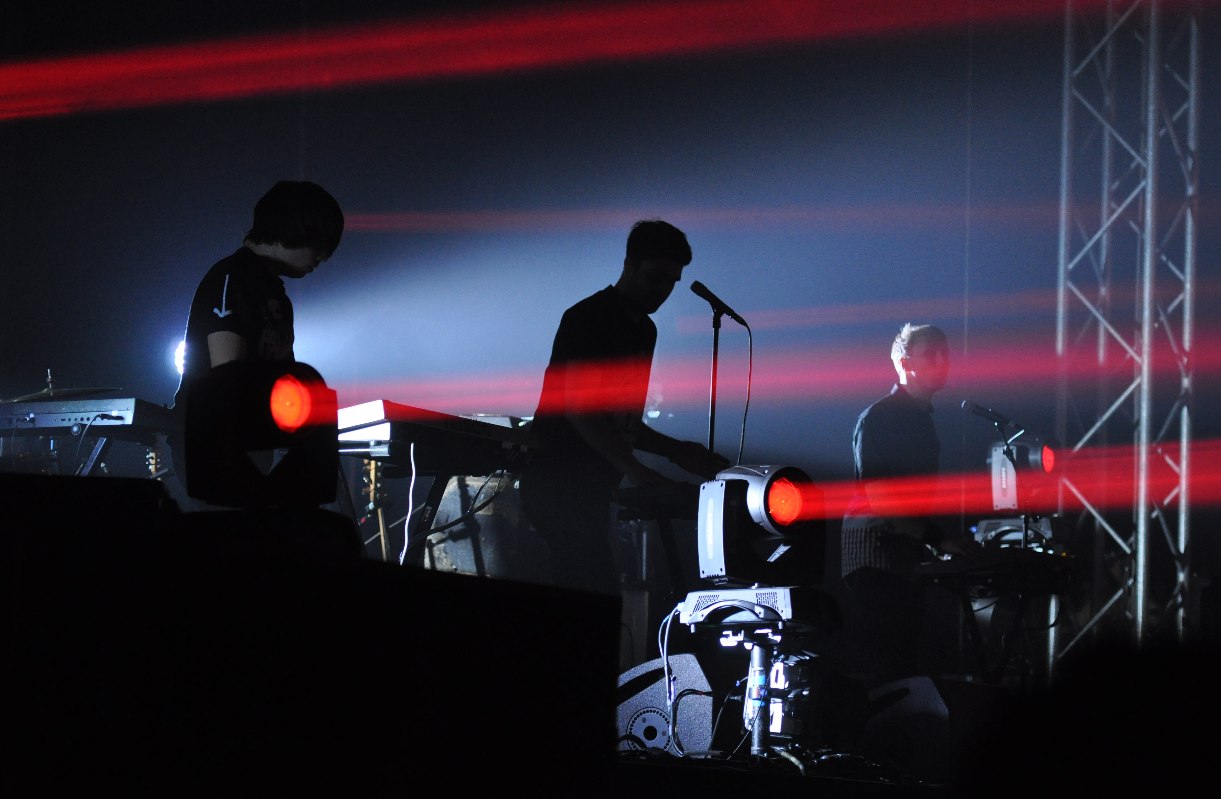 Goose at Paspop 2013, Schijndel, NL